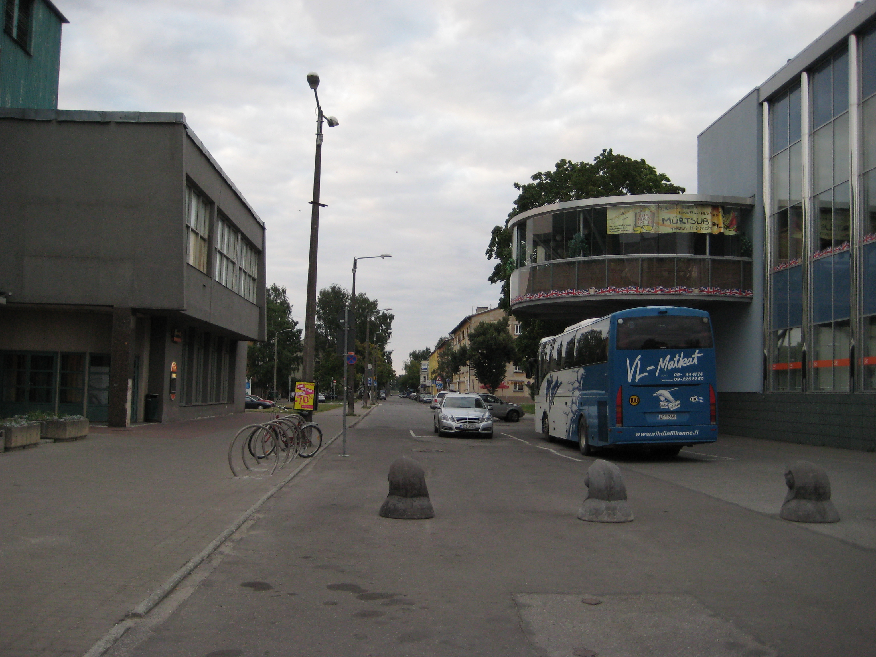 Aleksandri street in TartuEesti: Aleksandri tänav, pildistatud Riia mnt poolt